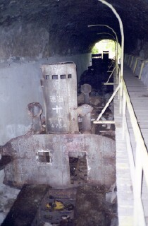 Japanese landing barges in a tunnel off the Rabaul-Kokopo road.